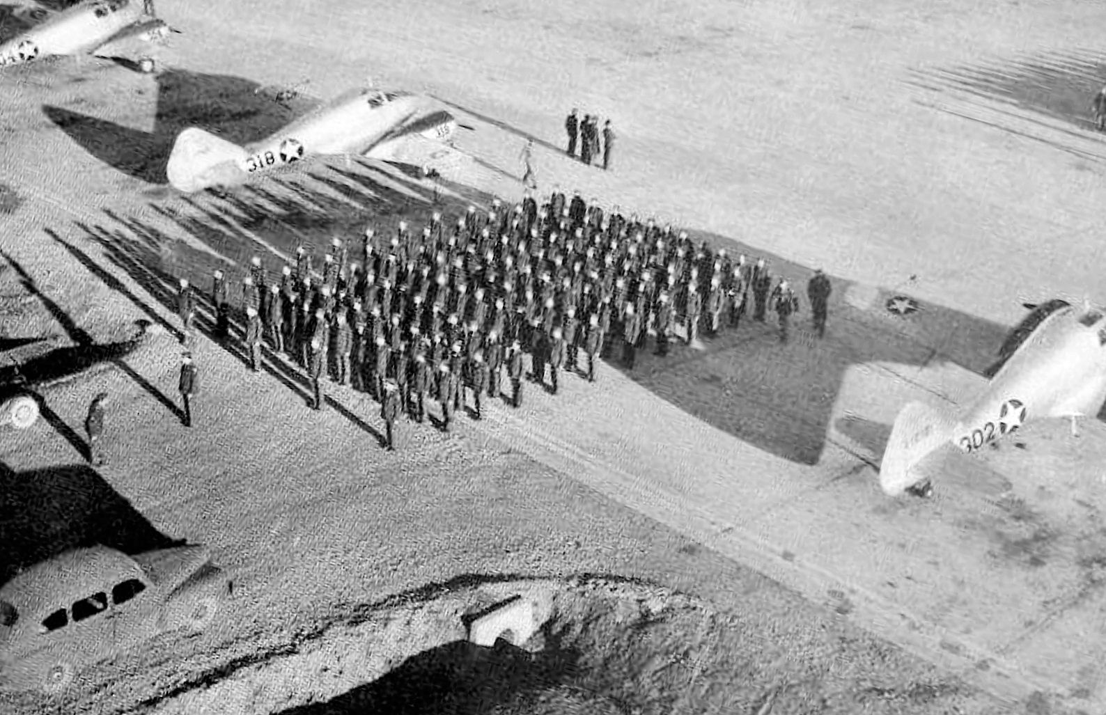 Blackland Army Airfield Flying Cadets in Formation